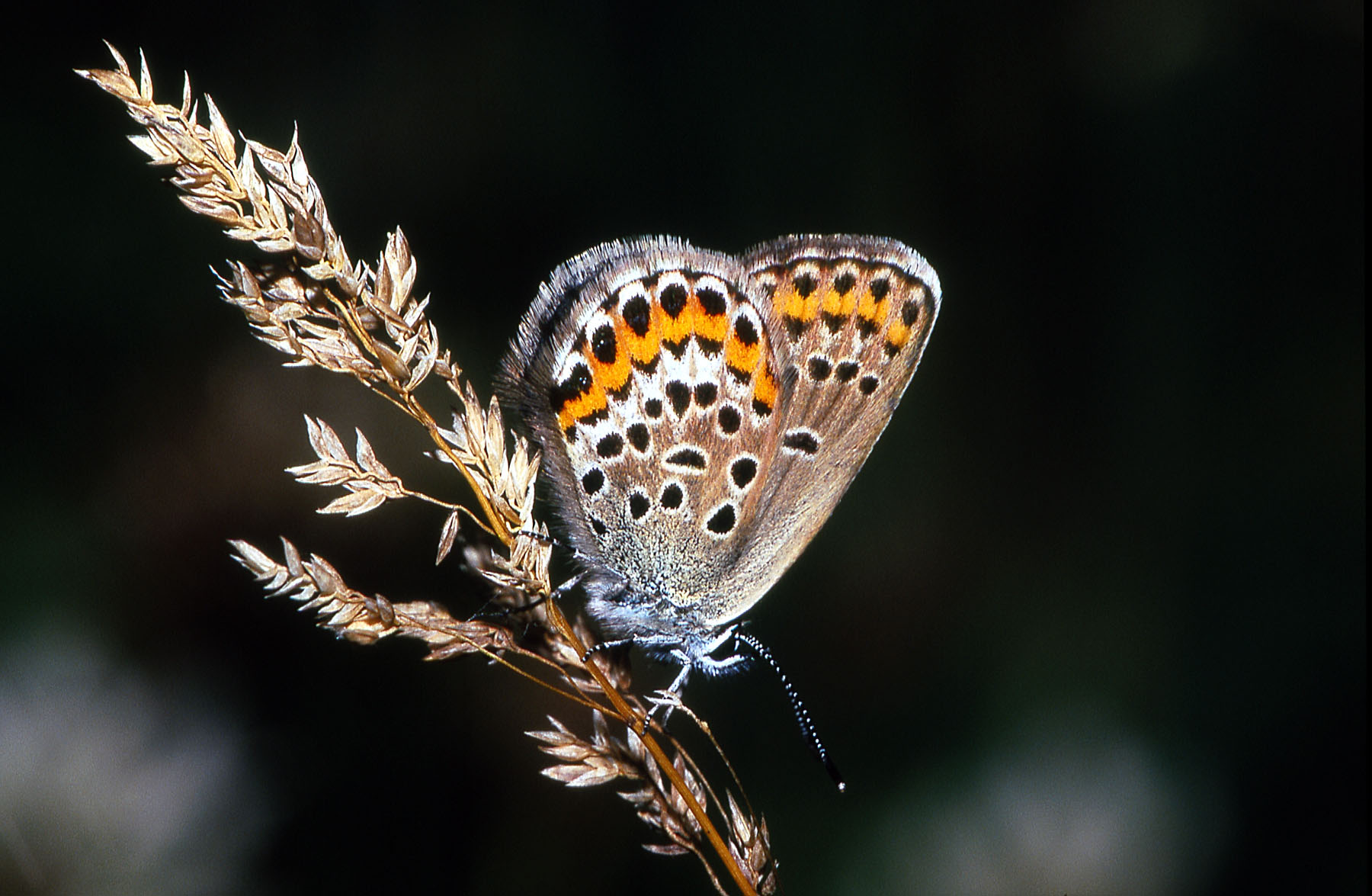 Description: Plebeius argus